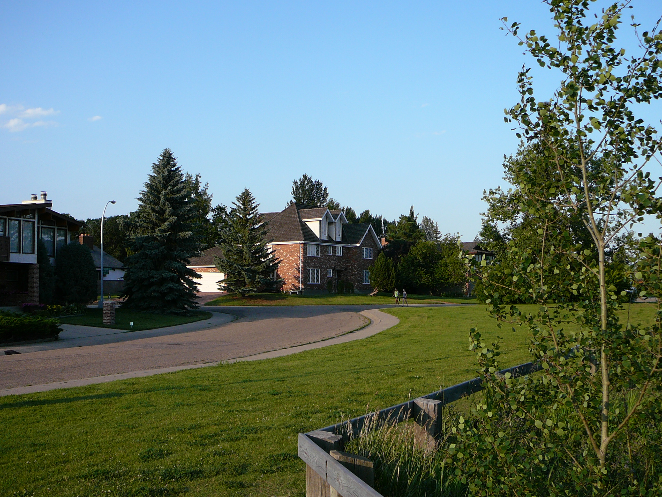 Residential street in the Edmonton neighbourhood of Gariepy